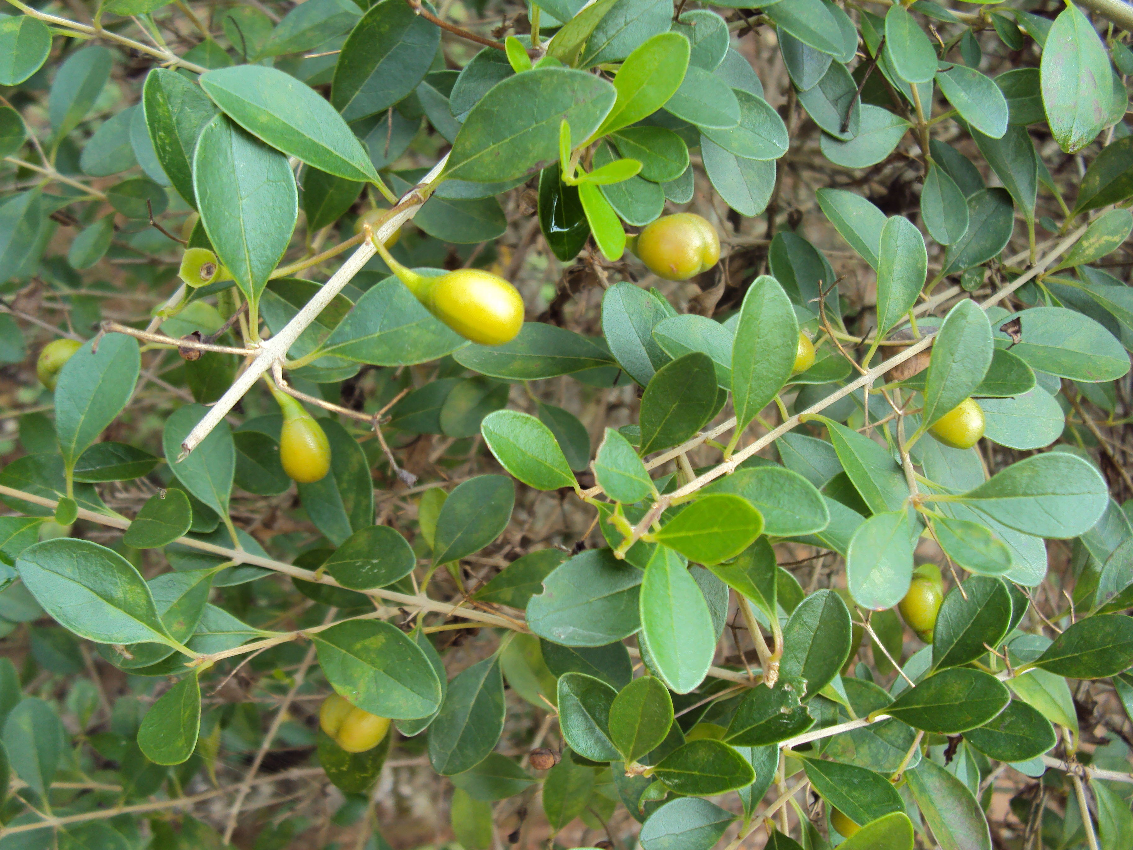 ചെറുകുമിഴ് . Taken from Botanical garden of Kariyavattam University Campus, Trivandrum.